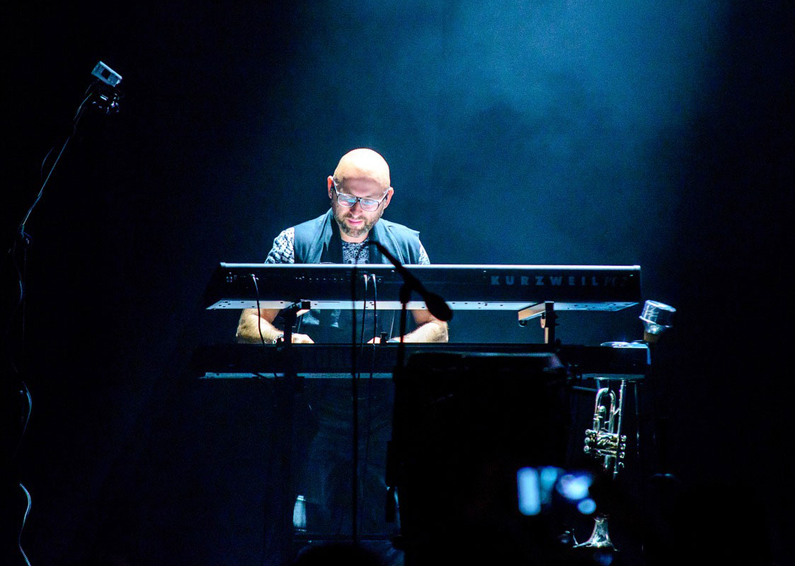 Piotr Kalicki, the piano and accordion, on stage.